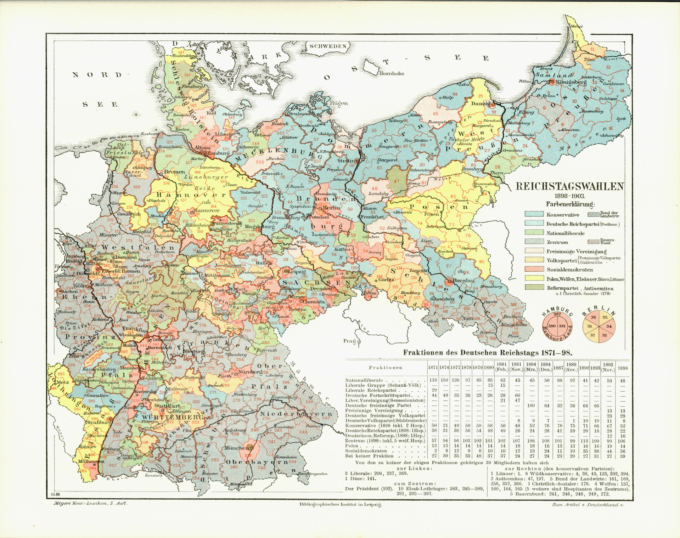 Results of the German federal election, 1898 accoring to constituencies in a contemporary map. A listing of the elected members of the Reichstag can be found here.